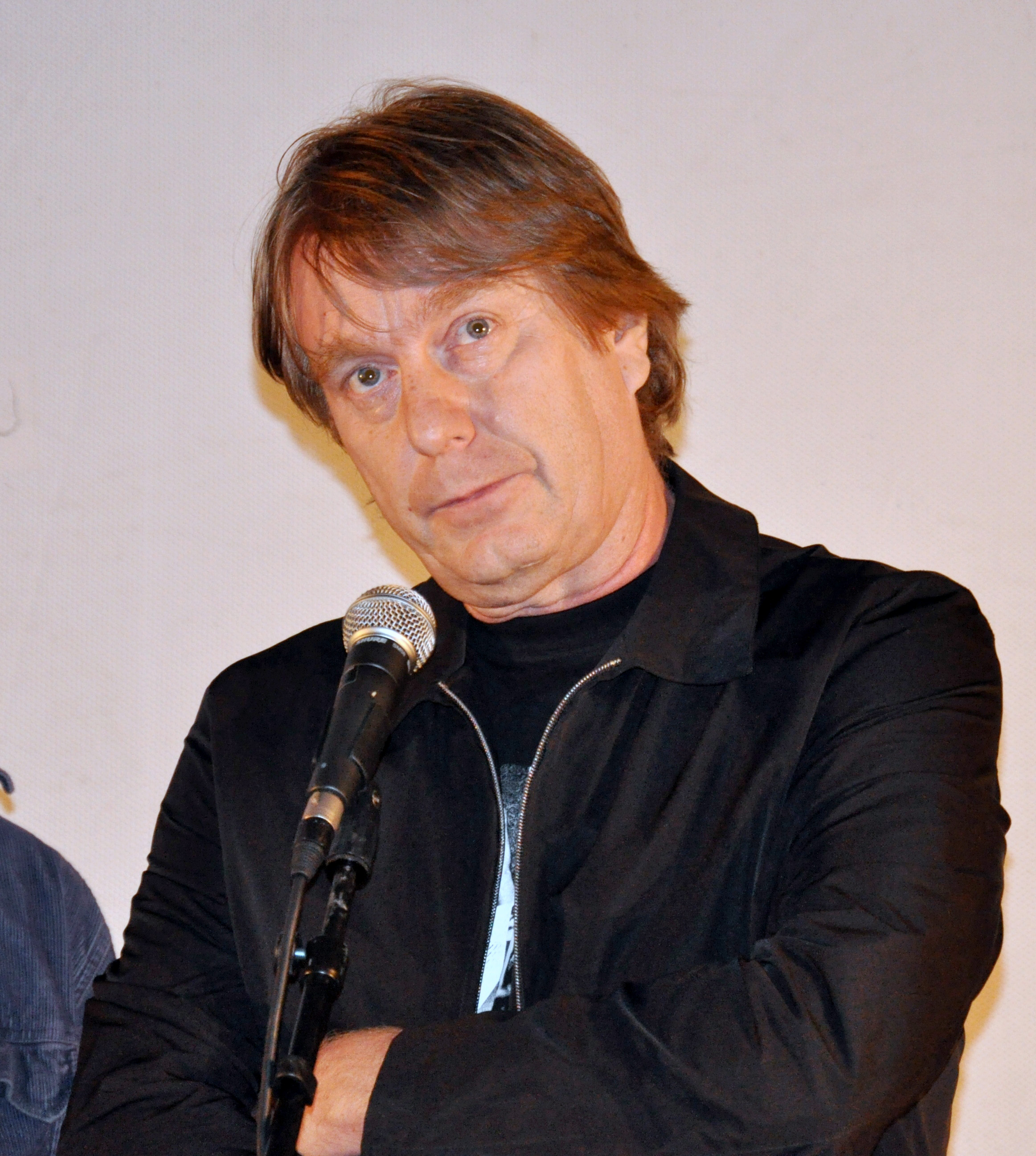 Finnish film director Mika Kaurismäki at the Midnight Sun Film Festival 2009 in Sodankylä, Finland.